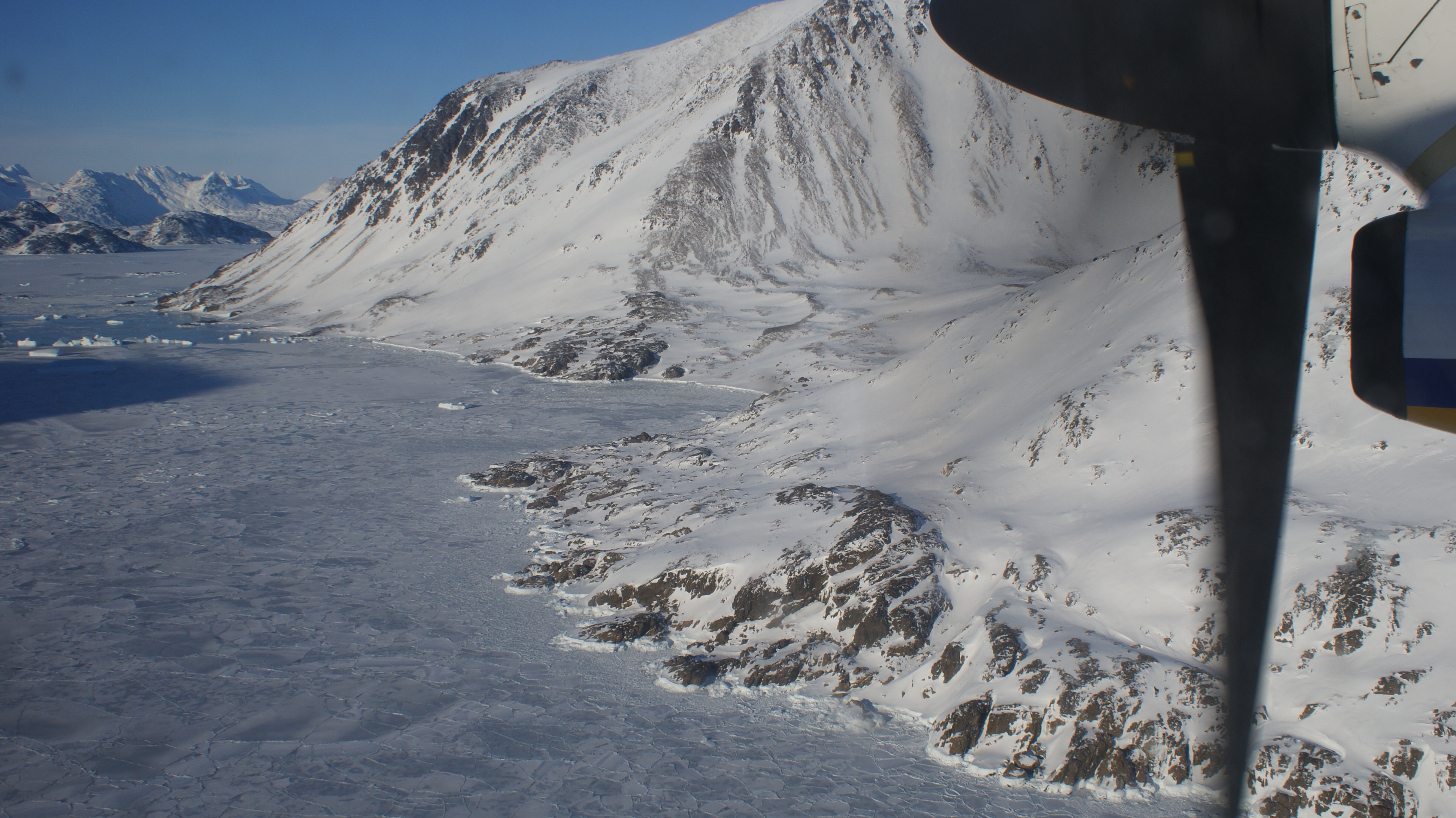 Aerial view of Ikaasaartik Strait, southeastern Greenland. Photographed from the Flugfélag Íslands de Havilland Canada Dash-8 106 during the Reykjavík-Kulusuk flight.